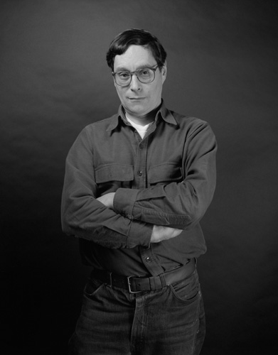 Howard Levy GI resister during the Vietnam War, court-martialed for refusing train Green Beret medics for Vietnam.